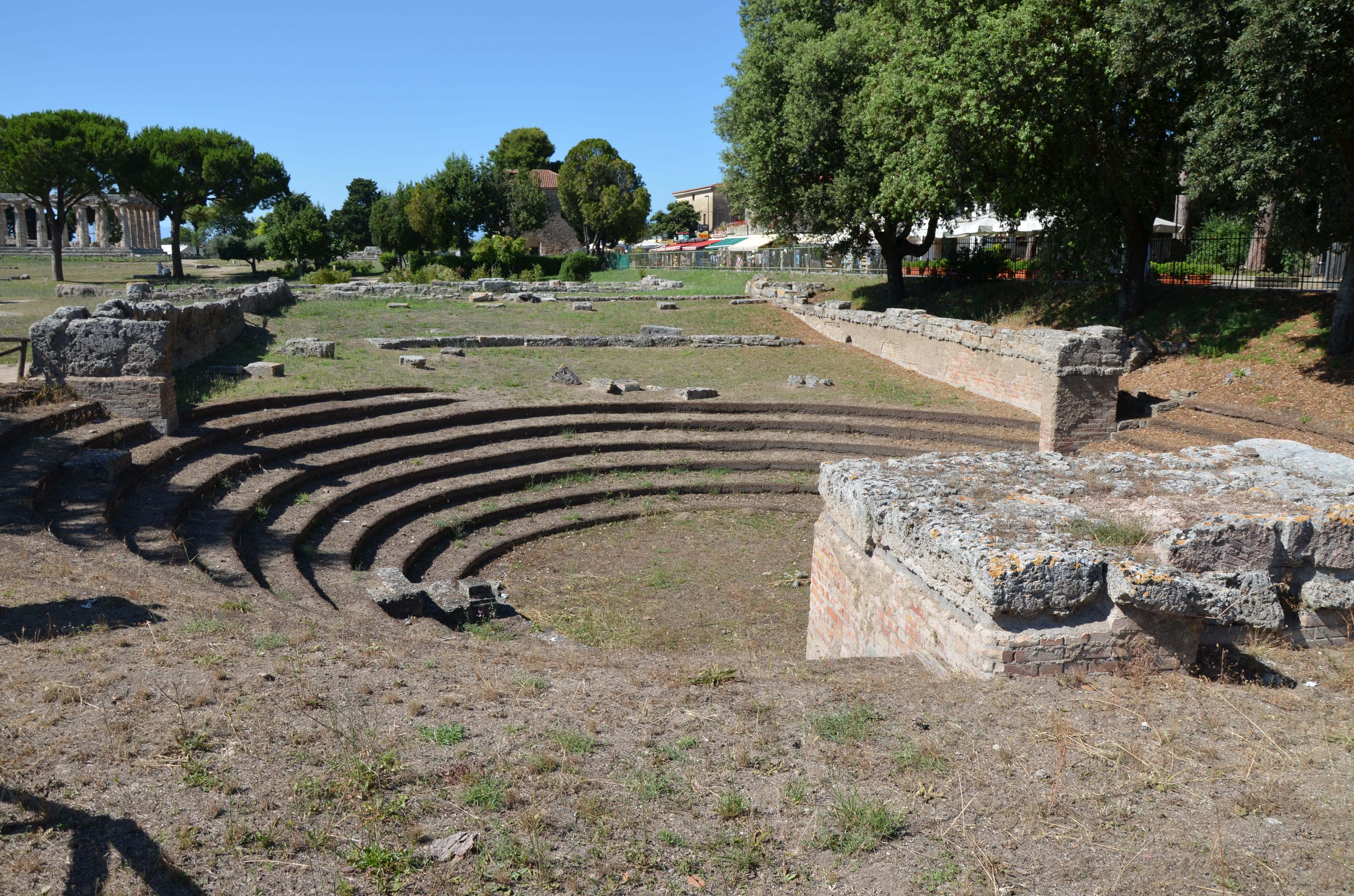 Paestum, Italy